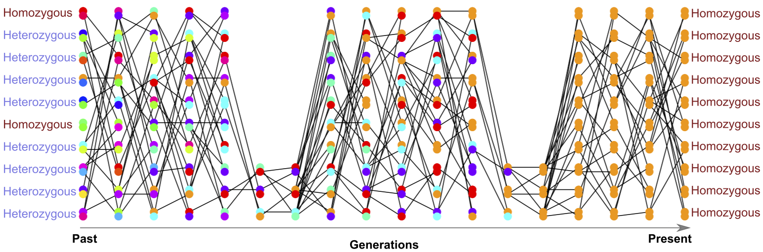 Loss of heterozygosity over time in a bottlenecking population. A diploid population of 10 individuals, that bottlenecks down to three individuals repeatedly. In the first generation I colour every allele a different colour so we can track their descendants, there are no new mutations.